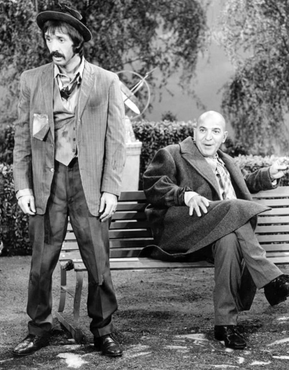 Publicity photo of Sonny Bono and Telly Savalas from the television program The Sonny and Cher Comedy Hour.